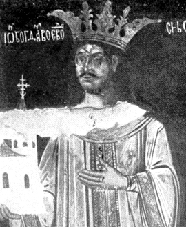 Fresco, found in Sf. Nicolae Domnesc Church in Iasi, latter destroyed.